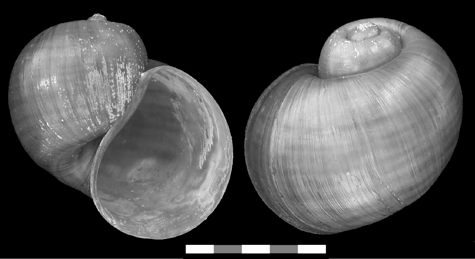 photo of shell of Pomacea insularum. Scale Bar: 5 cm.